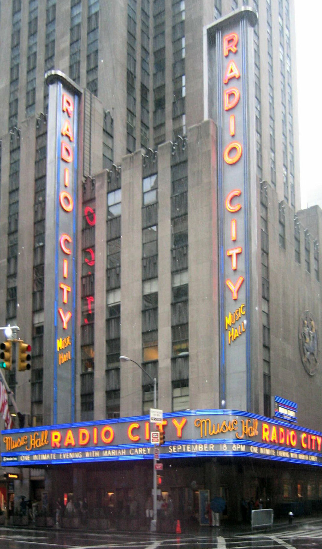 Front facade of the Radio City Music Hall